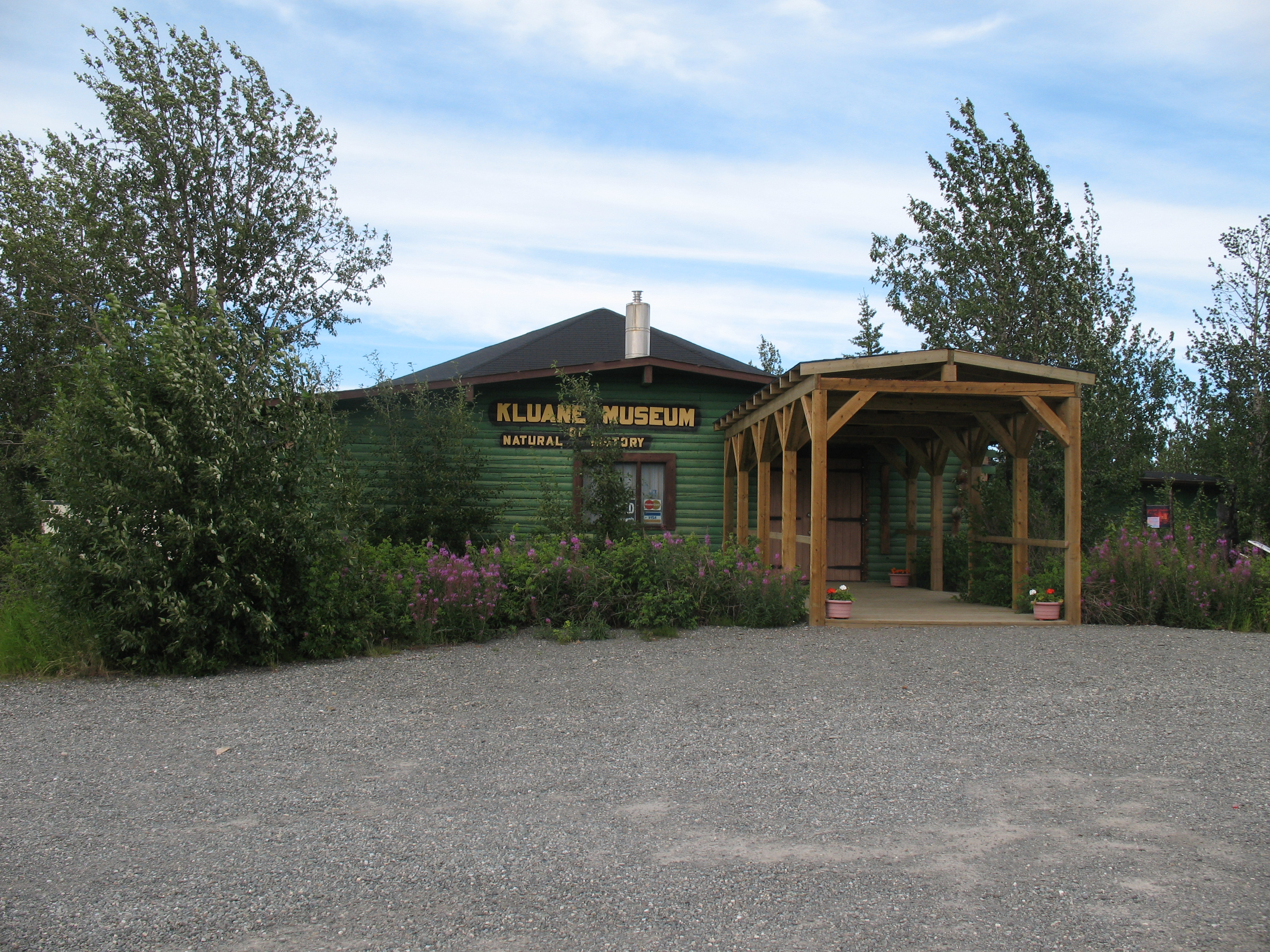 entrance of Kluane Museum of Natural History in Burwash Landing, Yukon